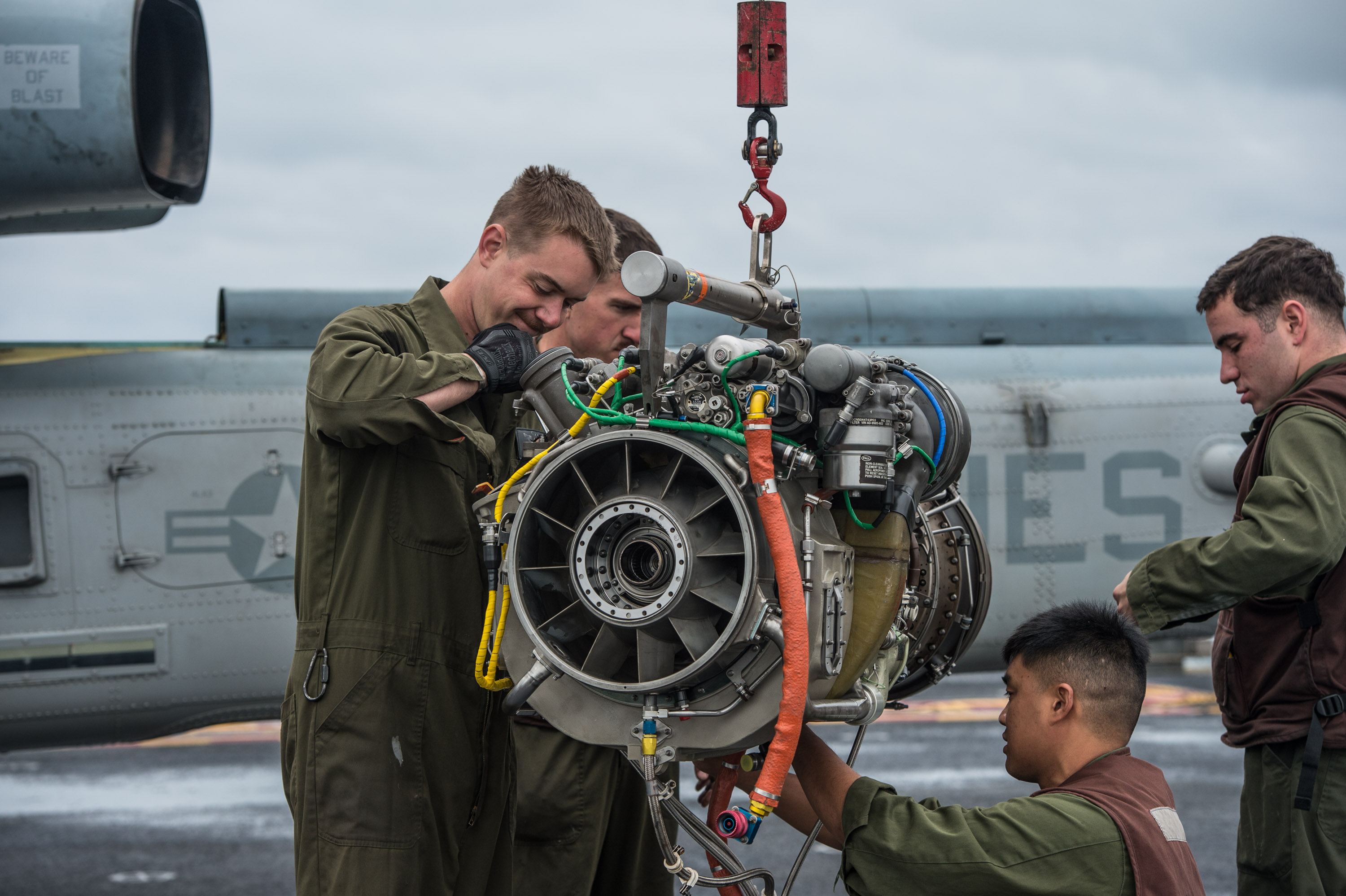 U.S. Marines assigned to the 31st Marine Expeditionary Unit (31st MEU) perform maintenance on the General Electric T700-GE-401C turboshaft engine of a Bell UH-1Y Huey helicopter on the flight deck of the amphibious assault ship USS Bonhomme Richard (LHD-6) at the White Beach Naval Facility, Okinawa.